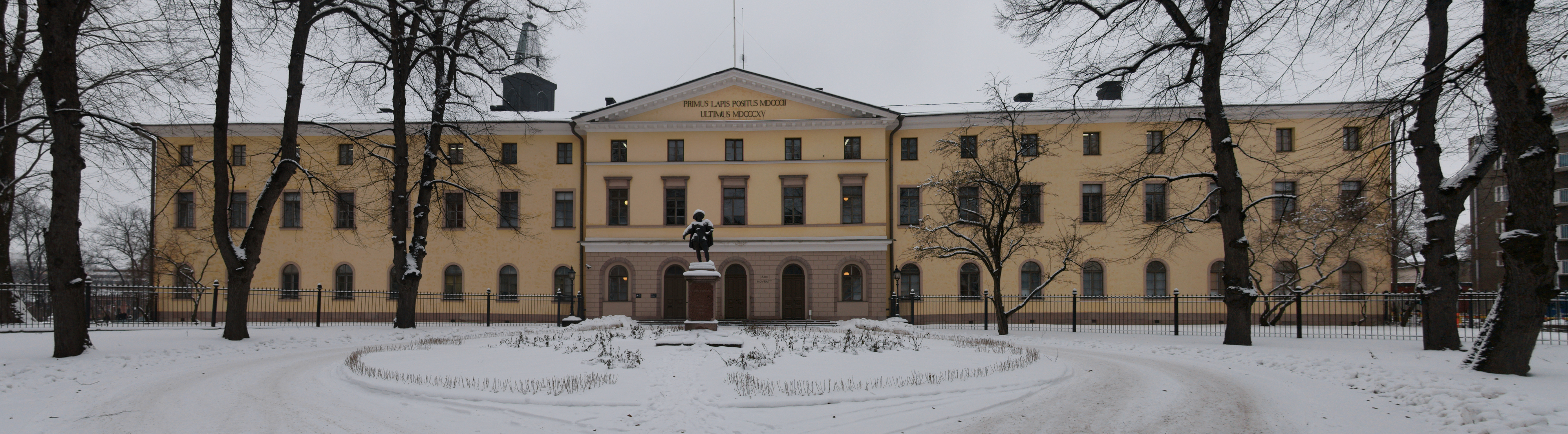 Court of Appeal, Academy House, Turku, with Turku Cathedral's tower on the background, and a statue of Gustav II Adolf, the founder of the Court of Appeal, on the foreground.